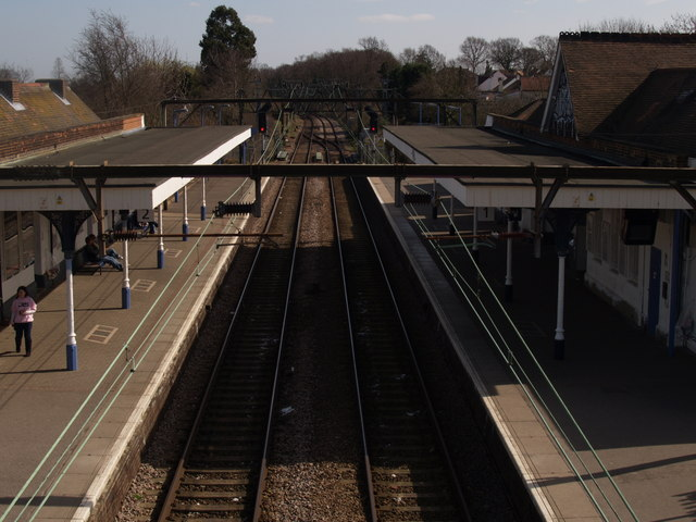 Hockley Station, looking towards Southend Victoria View from the footbridge at Hockley Station looking in the direction of southend bound trains